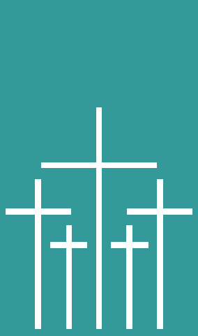 German War Graves Commission (logo)